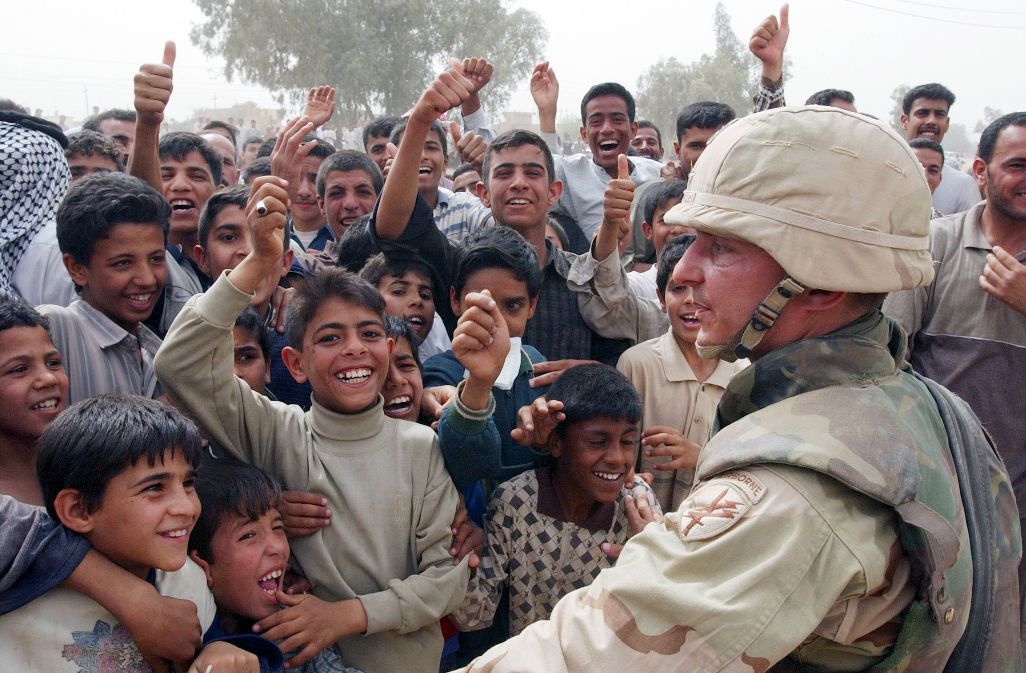 Najaf, Iraq (Apr. 8, 2003) -- Jubilant Iraqis cheer U.S. Army Soldiers at a humanitarian aid compound in the city of Najaf. The U.S. military is working with international relief organizations to help provide food and medicine for the Iraqi people in support of Operation Iraqi Freedom. Operation Iraqi Freedom is the multi-national coalition effort to liberate the Iraqi people, eliminate Iraq's weapons of mass destruction, and end the regime of Saddam Hussein. U.S. Navy photo by Photographer's Mate 1st Class Arlo K. Abrahamson. (RELEASED)